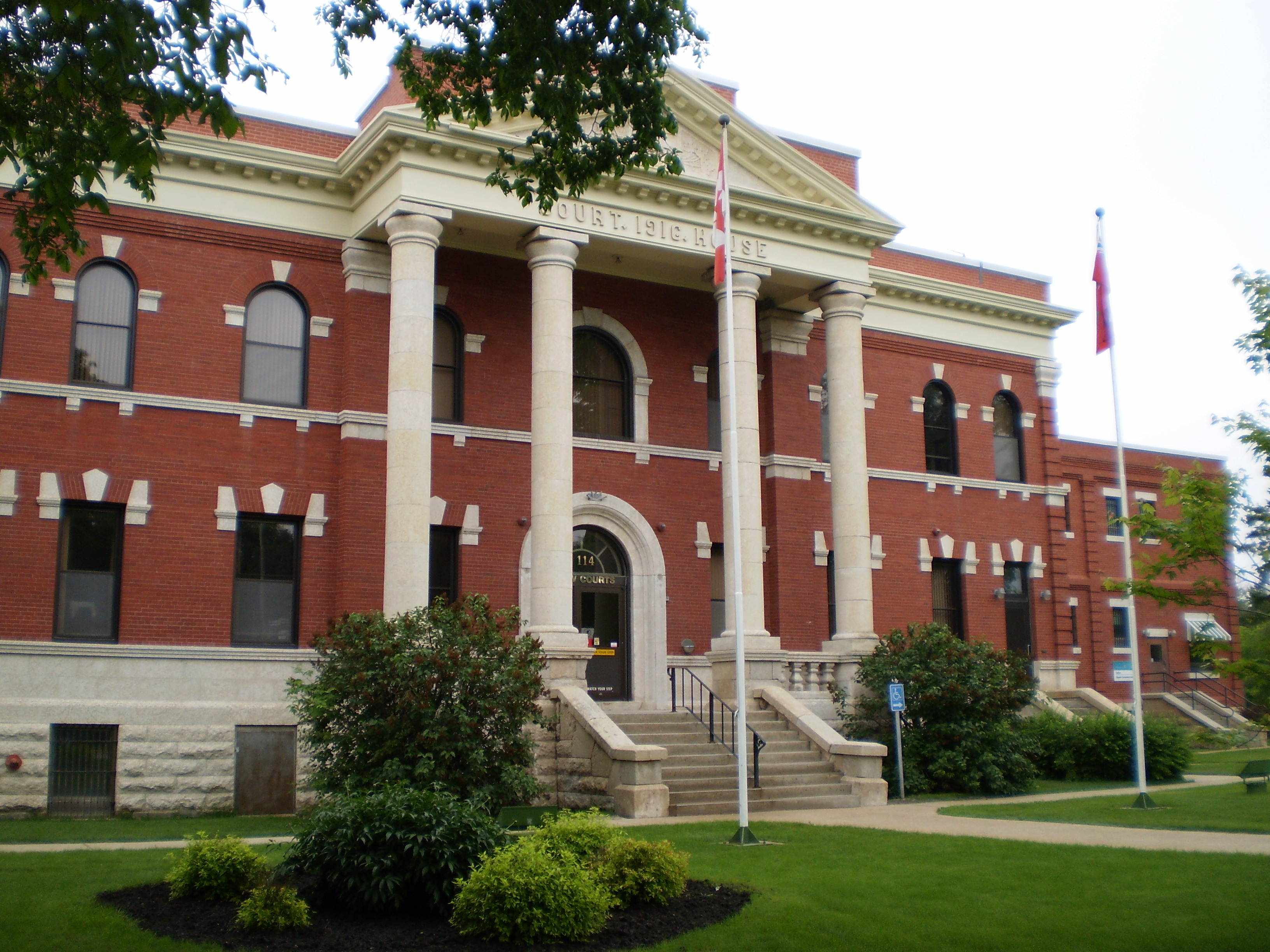 Dauphin Provincial Court House, Dauphin, Manitoba